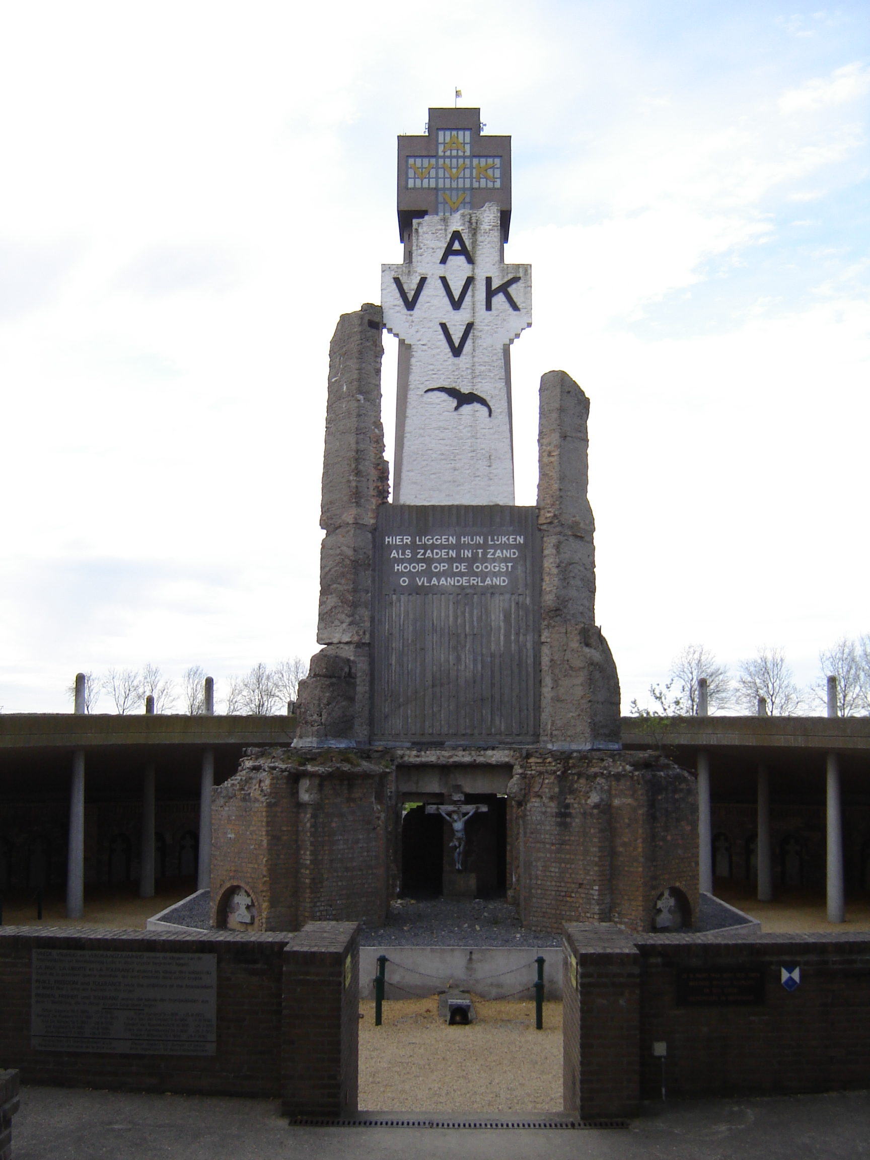 Cross on the crypt of the IJzertoren, with in the background the IJzertoren tower itself, in Kaaskerke. Kaaskerke, Diksmuide, West Flanders, Belgium